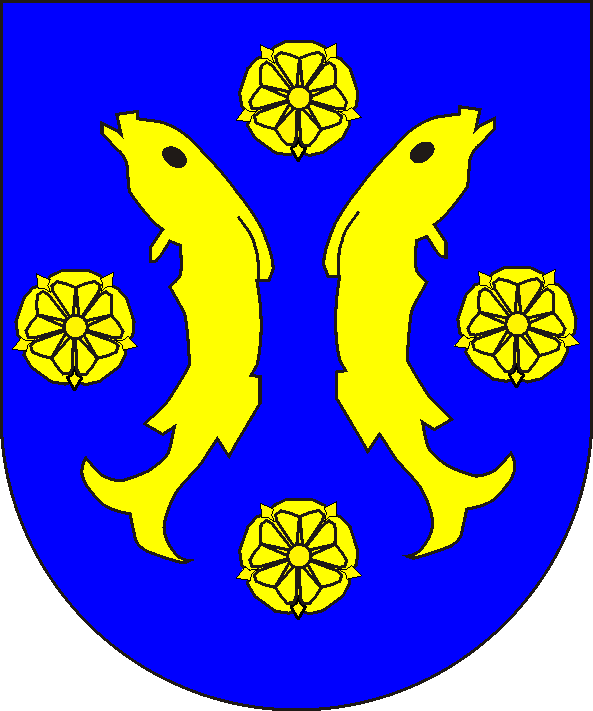 coat of arms county of Barby (17th century)